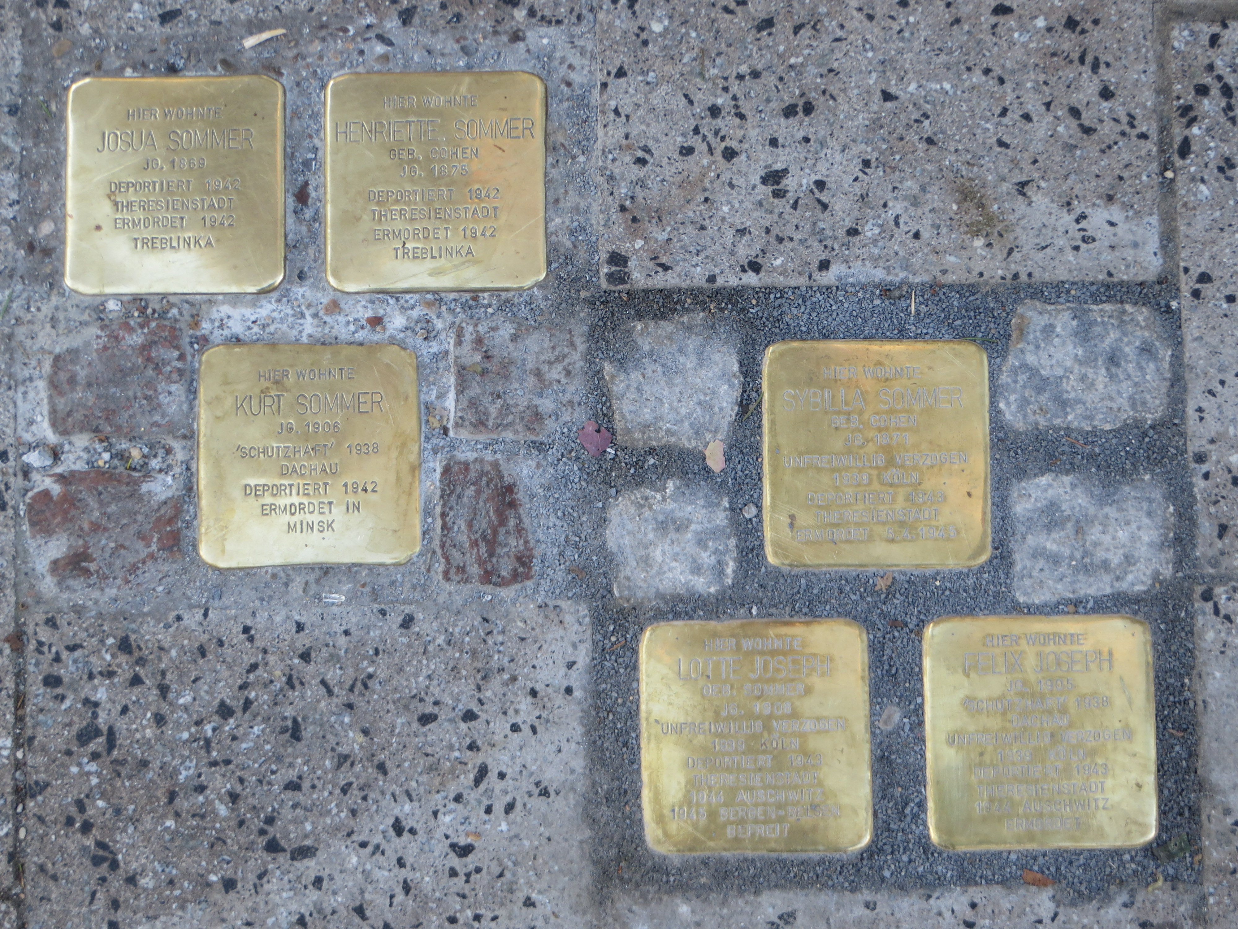 Stolpersteine at house Ruhrstraße 40 in Witten, Germany